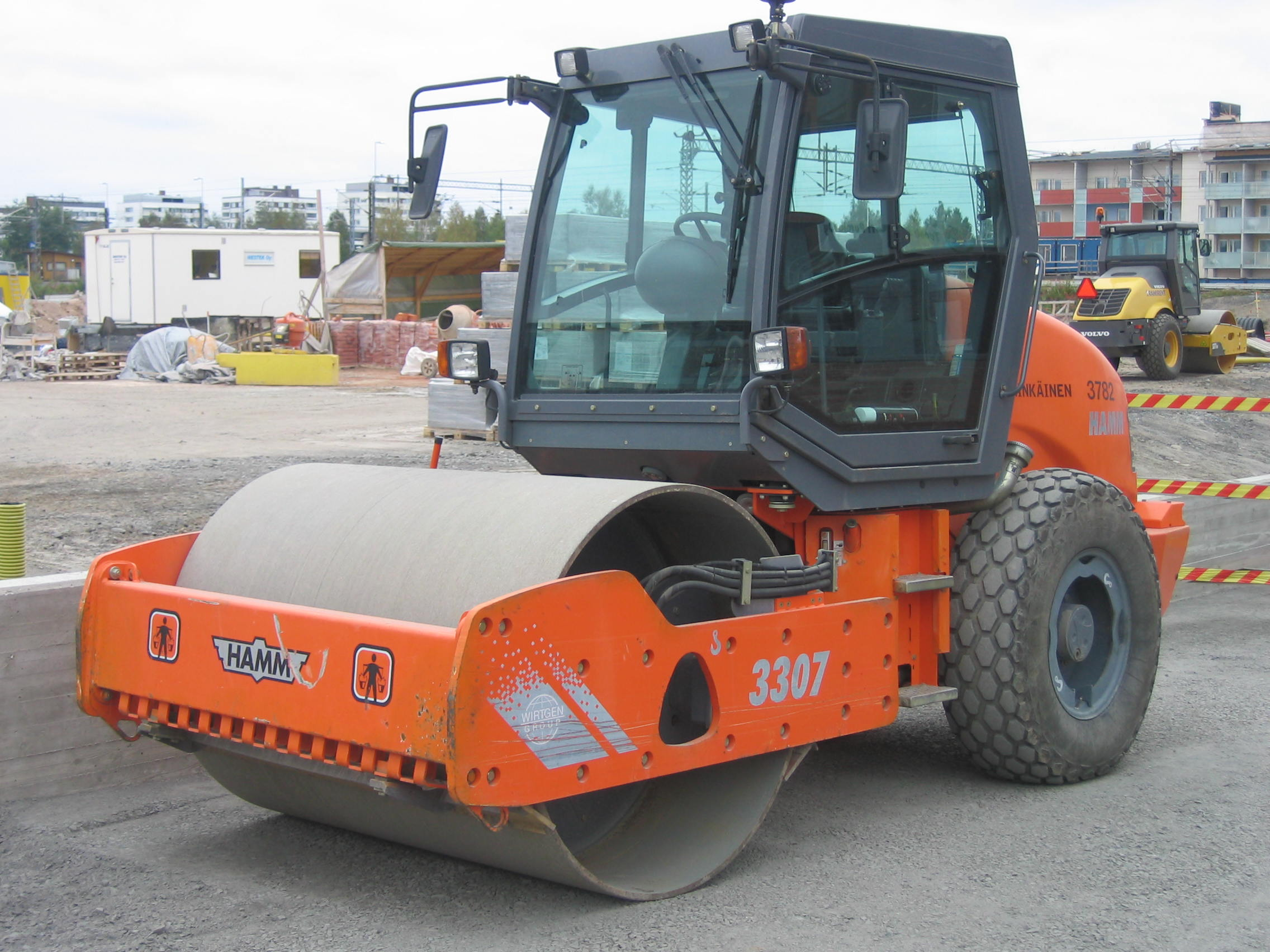 Street roller machine in the city of Oulu, Finland.